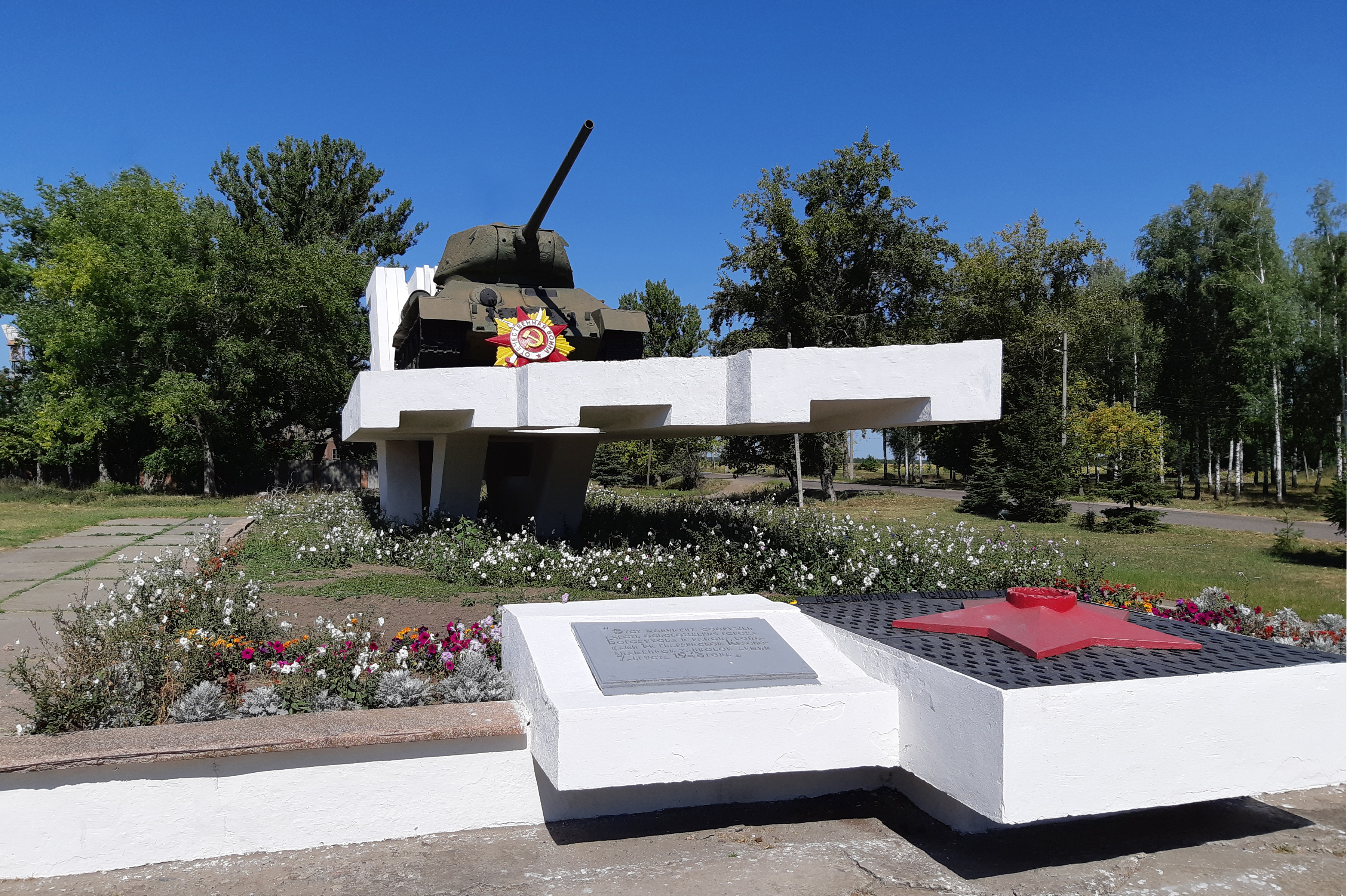 Bohodukhiv 1 Vadim Chuprina